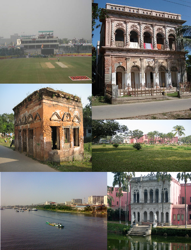 Montage of Bangladesh's biggest river port Narayanganj.